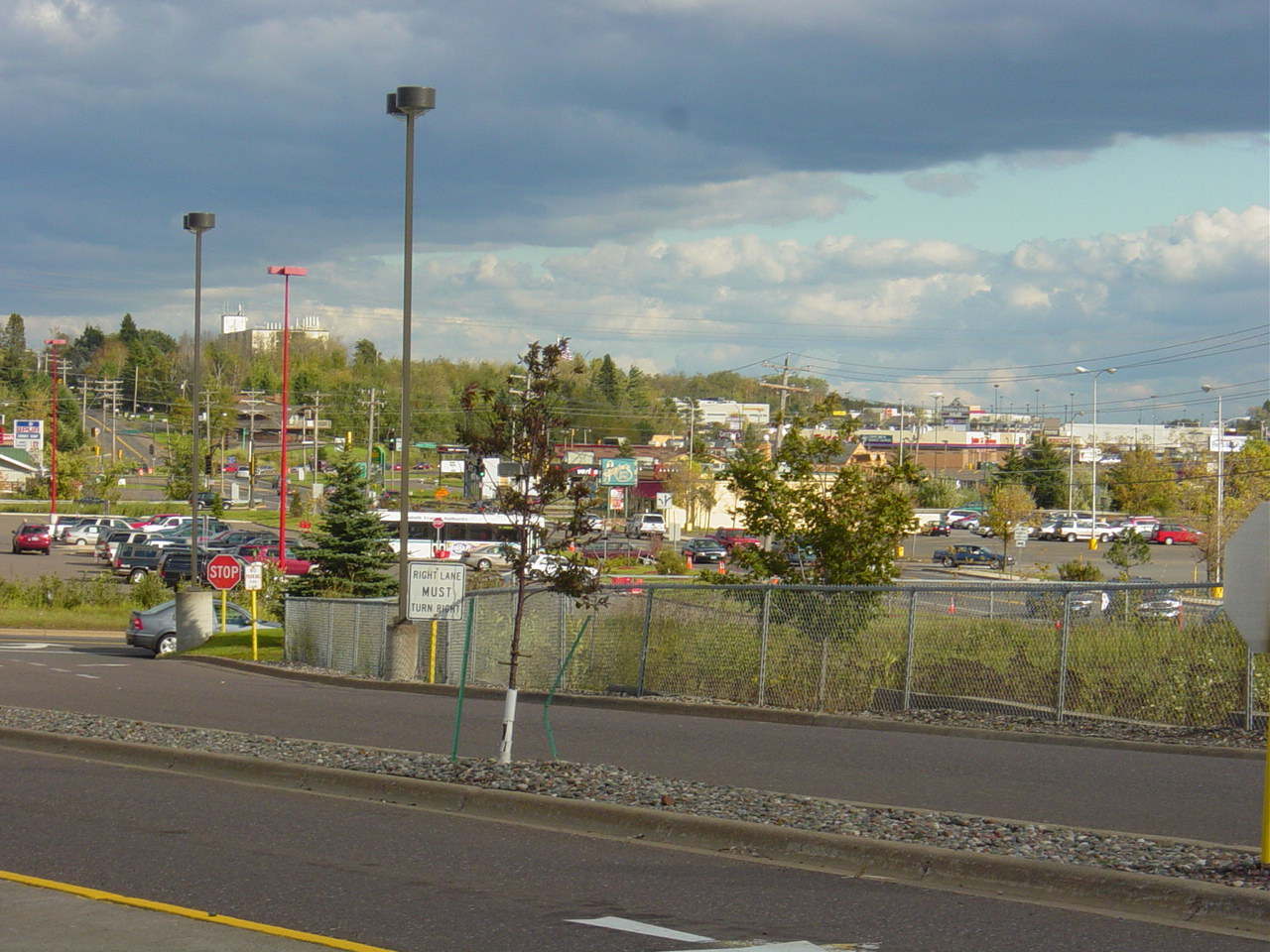 A picture of the Duluth "Mall Area" (or Highway 53 / Miller Trunk Corridor), taken by Jacob Norlund (me) from the exit / entrance of the Burning Tree Plaza.